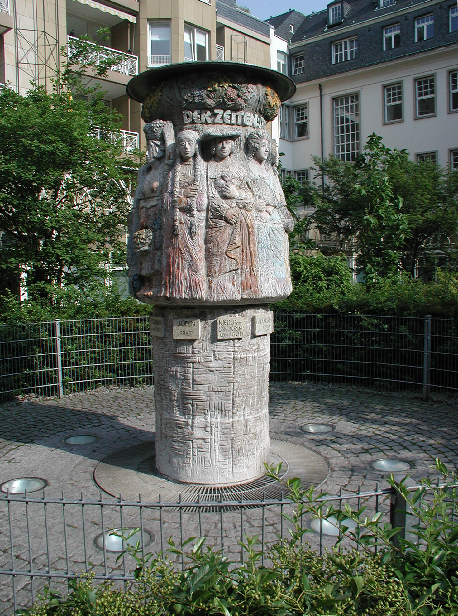 Cologne, women fountain (Anneliese Langenbach)